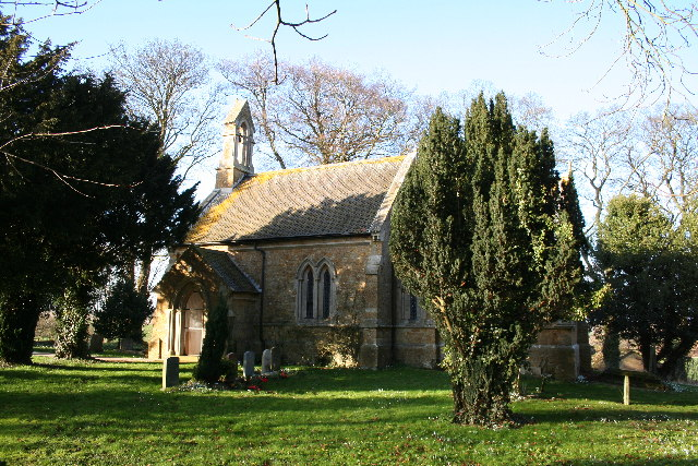 St Martin's parish church, Kirmond-le-Mire, Lincolnshire, seen from the southeast